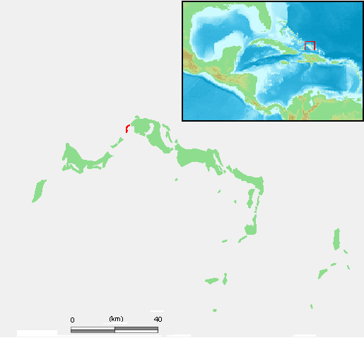 Parrot Cay - Turks and Caicos islands